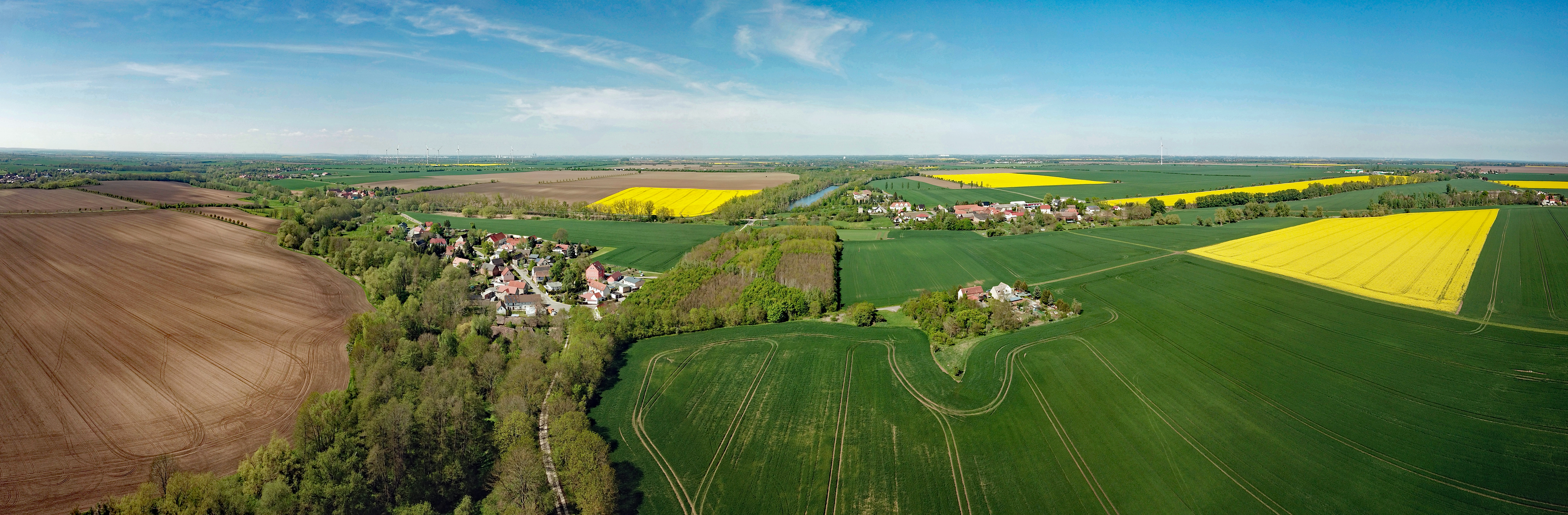 Sössen, Lützen, Saxony-Anhalt, Germany